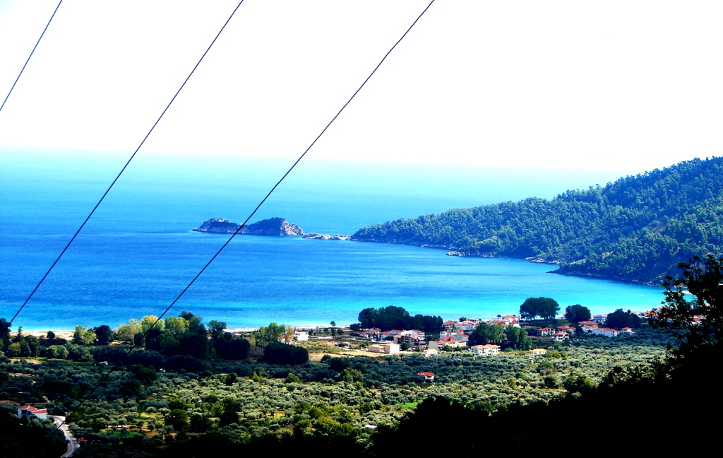 a@a Thasos island greece4